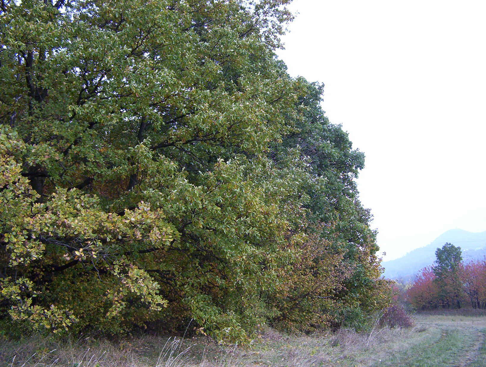 Oak tree.